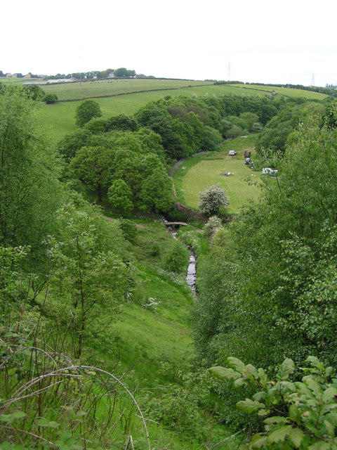 Tyersal Beck and Bridge The photograph was taken from the embankment of the old railway between Pudsey and Tyersal which was closed in the 1960's.